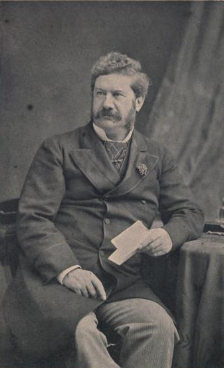 Sir Ashley Eden, KCSI: Lieutenant-Governor of Bengal, 1877-1882